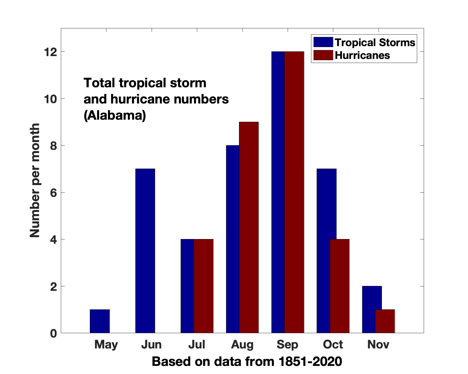 This figure shows the monthly distribution of Alabama hurricanes and tropical storms from the existing record (1851-2020)